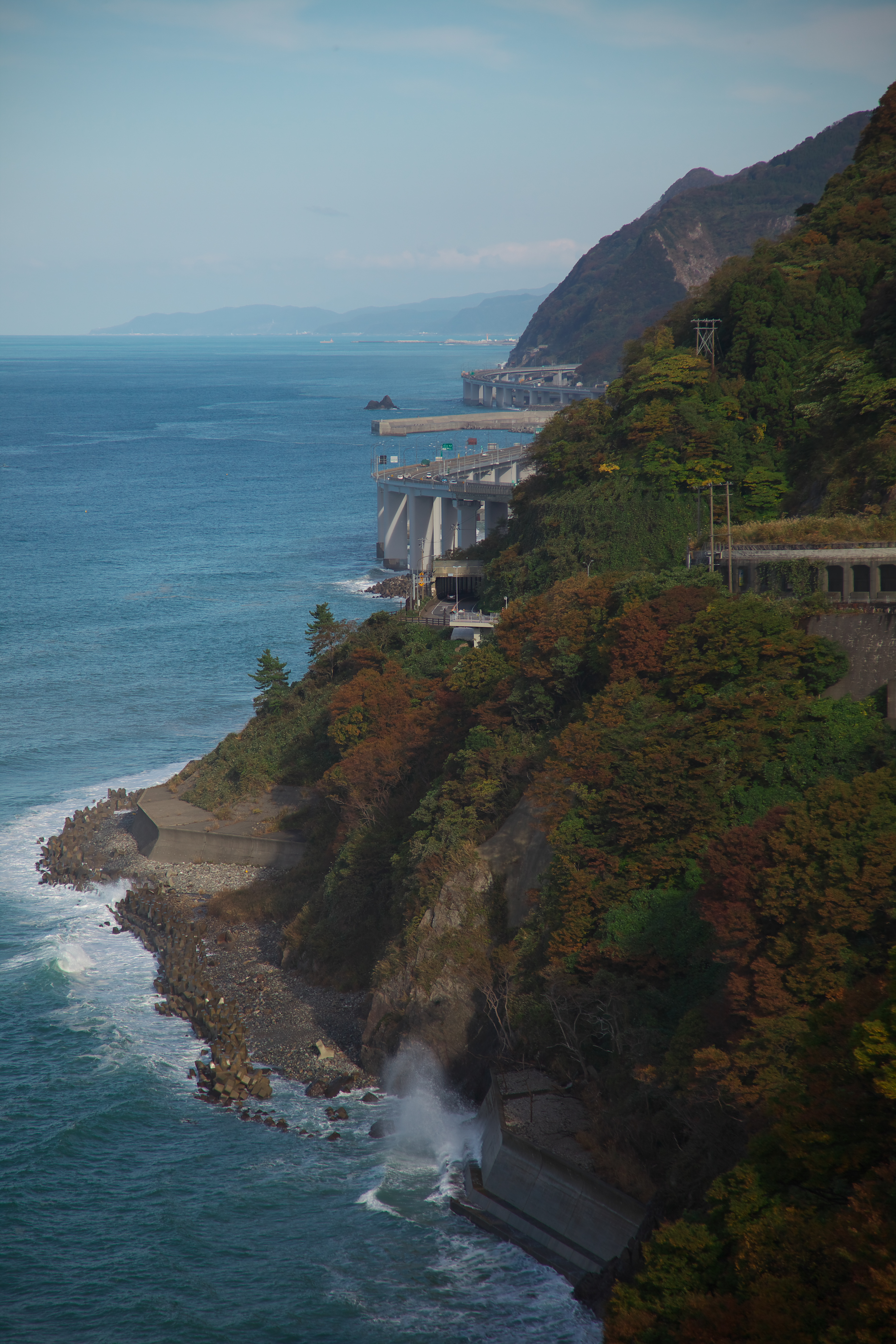 The Hokuriku Expressway and the National Route 8 at Oyashirazu, Itoigawa City